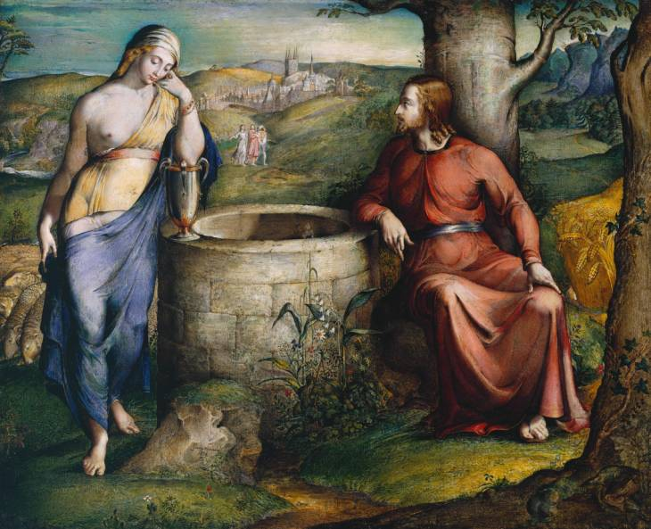 George Richmond, Christ and the Woman of Samaria